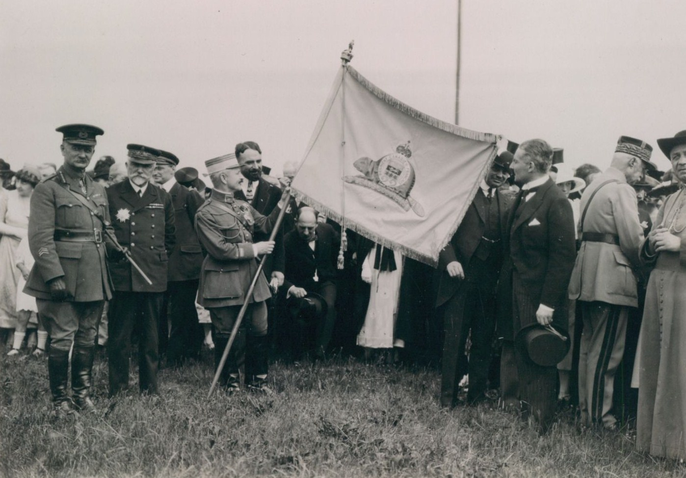 Émile Fayolle, Marshal of France, being awarded the flag of Canada's Royal 22e Régiment on the Plains of Abraham in Quebec City, Quebec, Canada. Fayolle had been sent to Canada on a mission of gratitude for Canada's assistance to France during the First World War and to gift to the country a bronze Rodin bust named "La France".